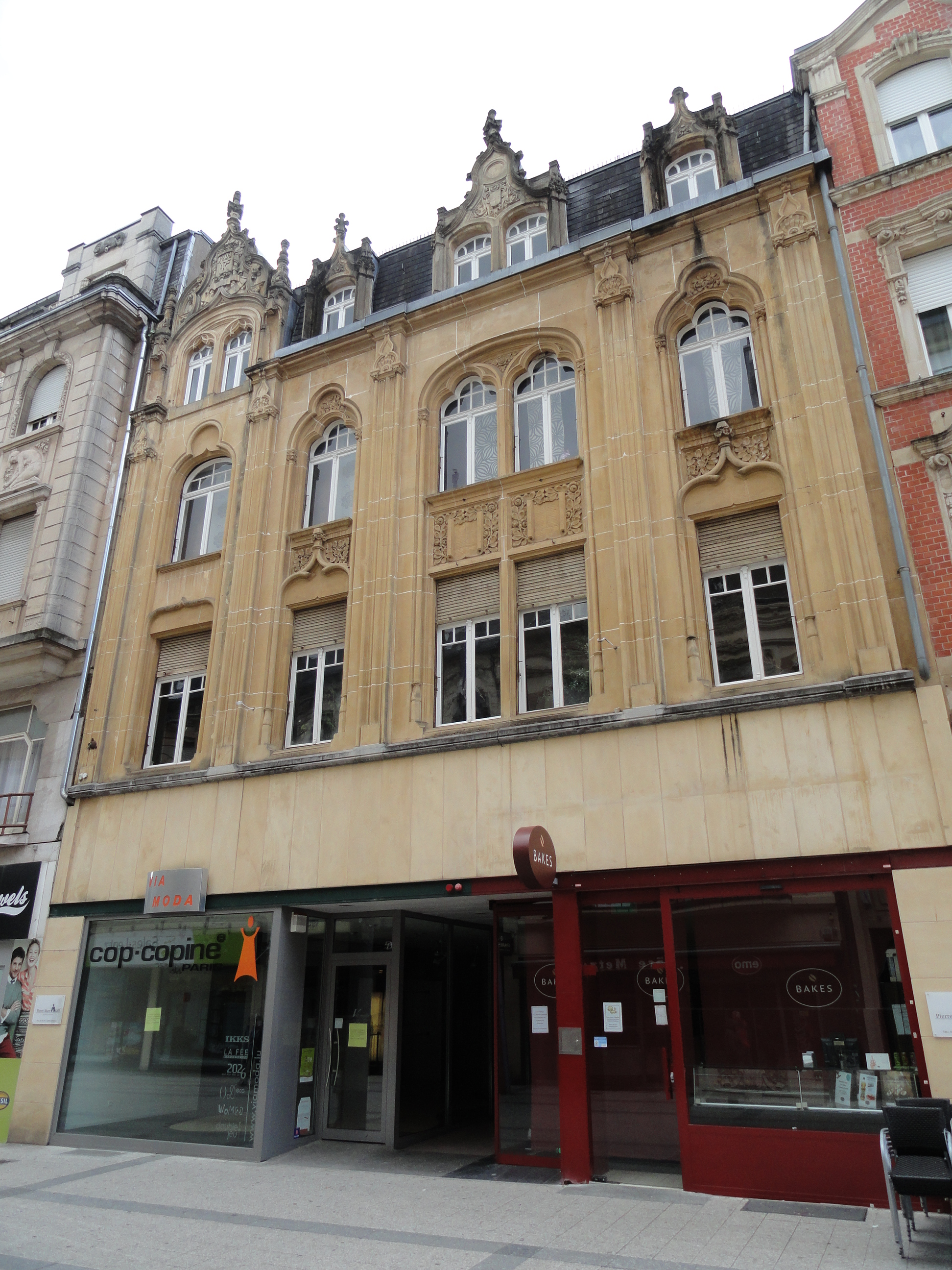 57 rue de l'Alzette - Esch-sur-Alzette- Grand duché du Luxembourg - Style néogothique